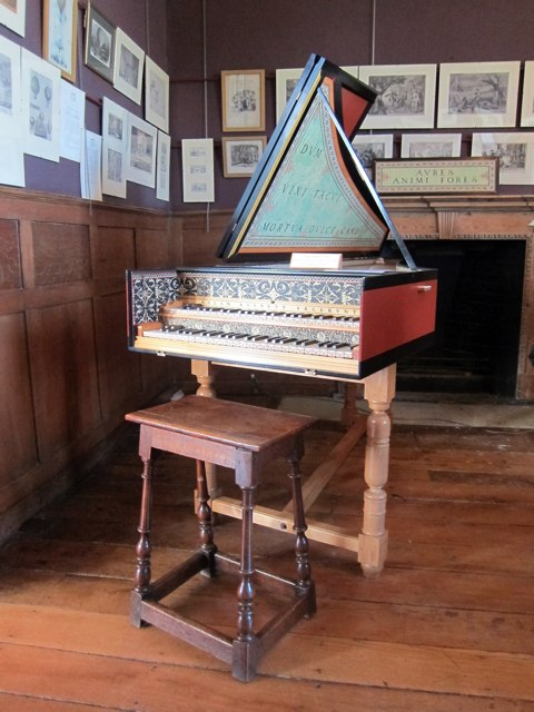 Piano at Finchcocks House museum Adlam Burnett 1983 Harpsichord Finchcocks is a Grade I listed Link Georgian manor house built in 1725, and named after the family who built it. The house is occupied by a musical instrument museum, specialising in keyboard instruments, with over 100 pianos, harpsichords, clavichords and organs, many of which visitors can play. Museum website Link Wikipedia Link See other images of Finchcocks